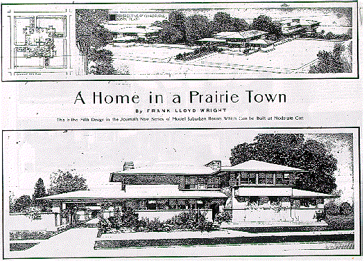 Frank Lloyd Wright's A Home In A Prairie Town